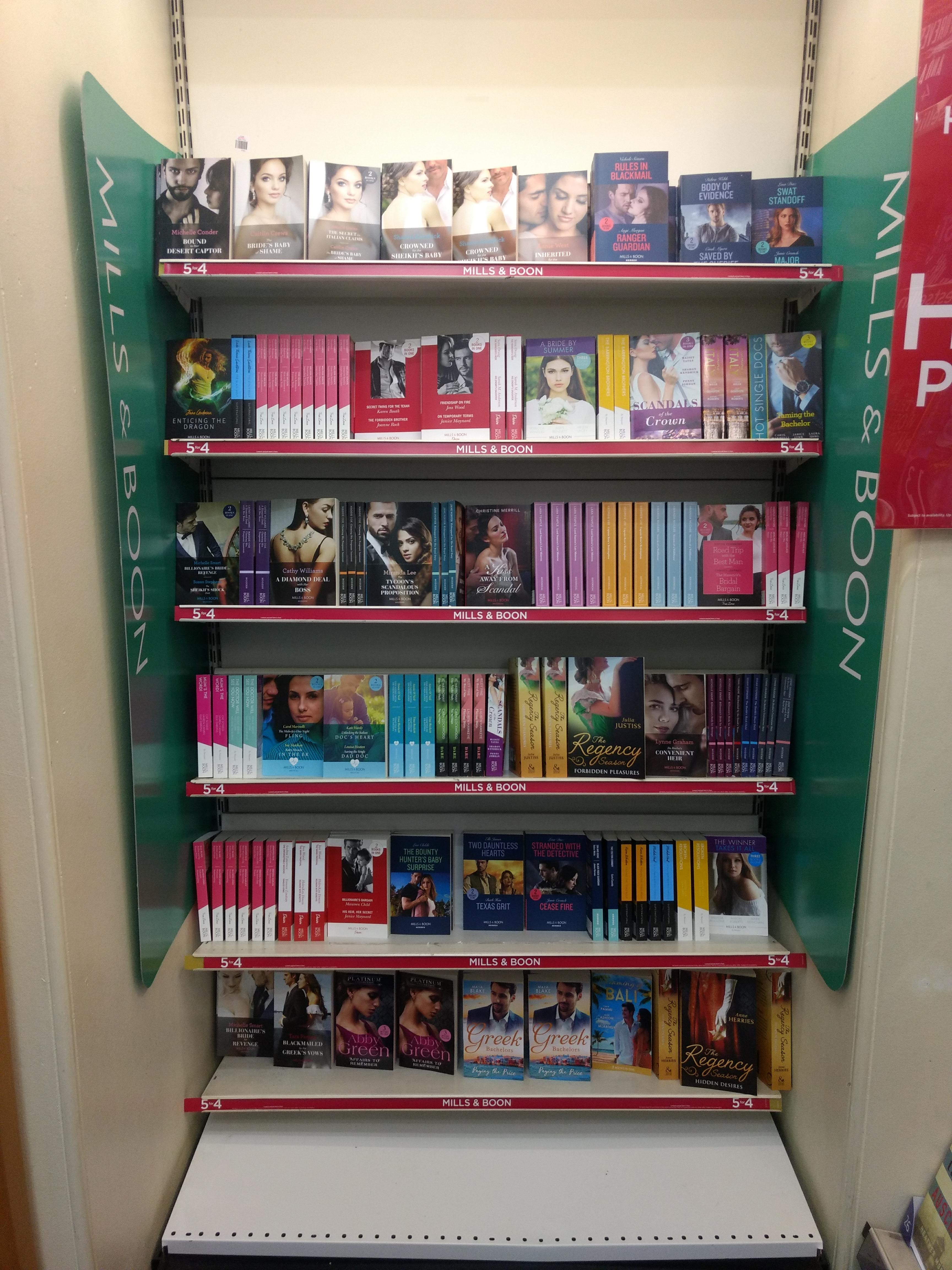 Books at W.H. Smith, Enfield, London.